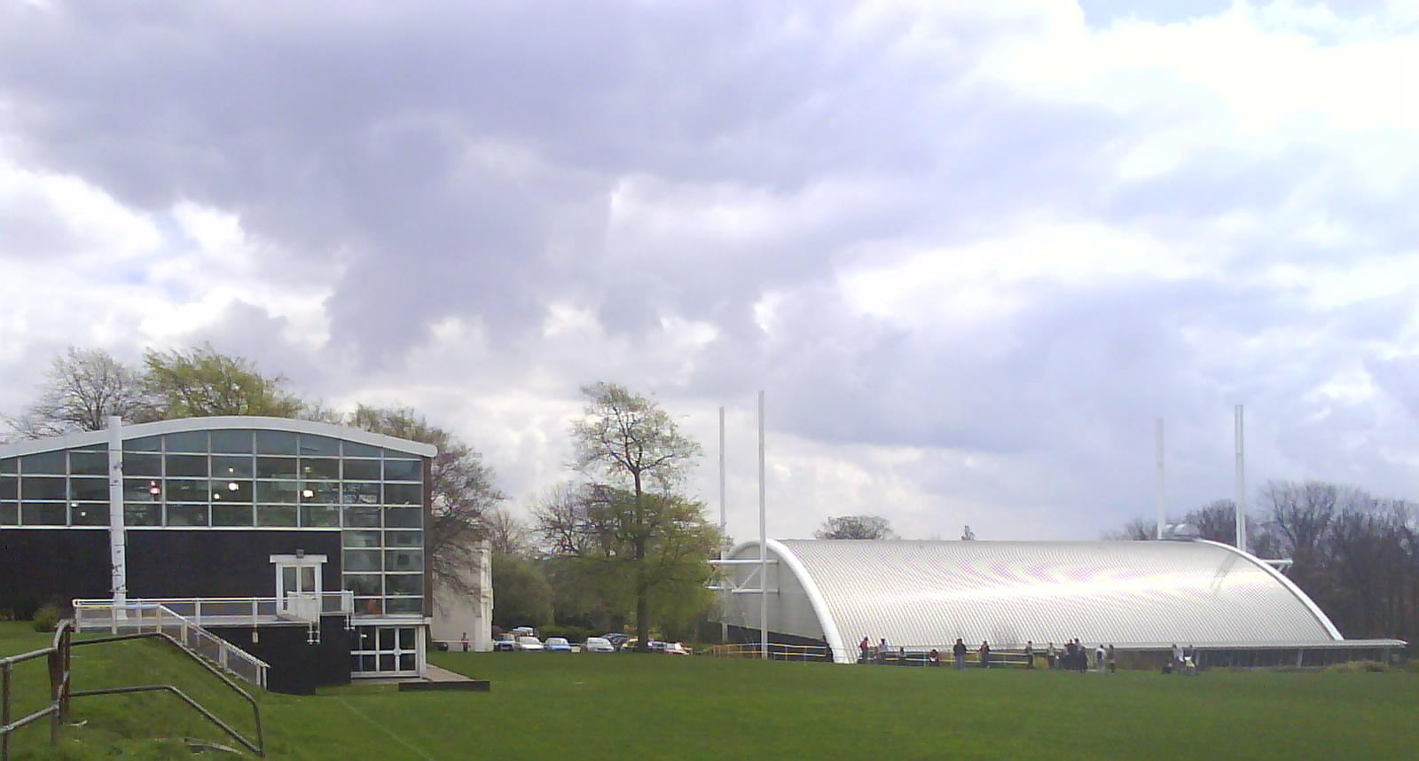 IM Marsh Campus 30/04/08. I own this image and release it into the public domain.